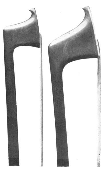 Photo of the tips of a viola and a cello bow by John Dodd.